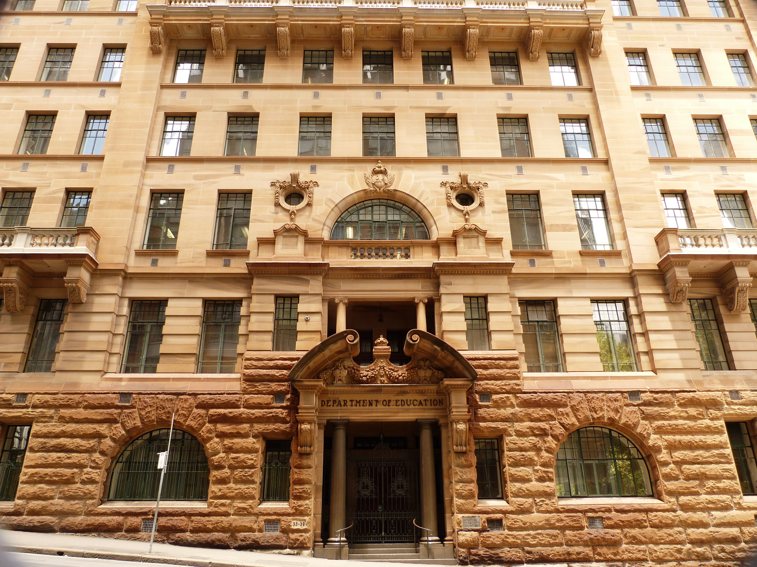 dept of education, sydney